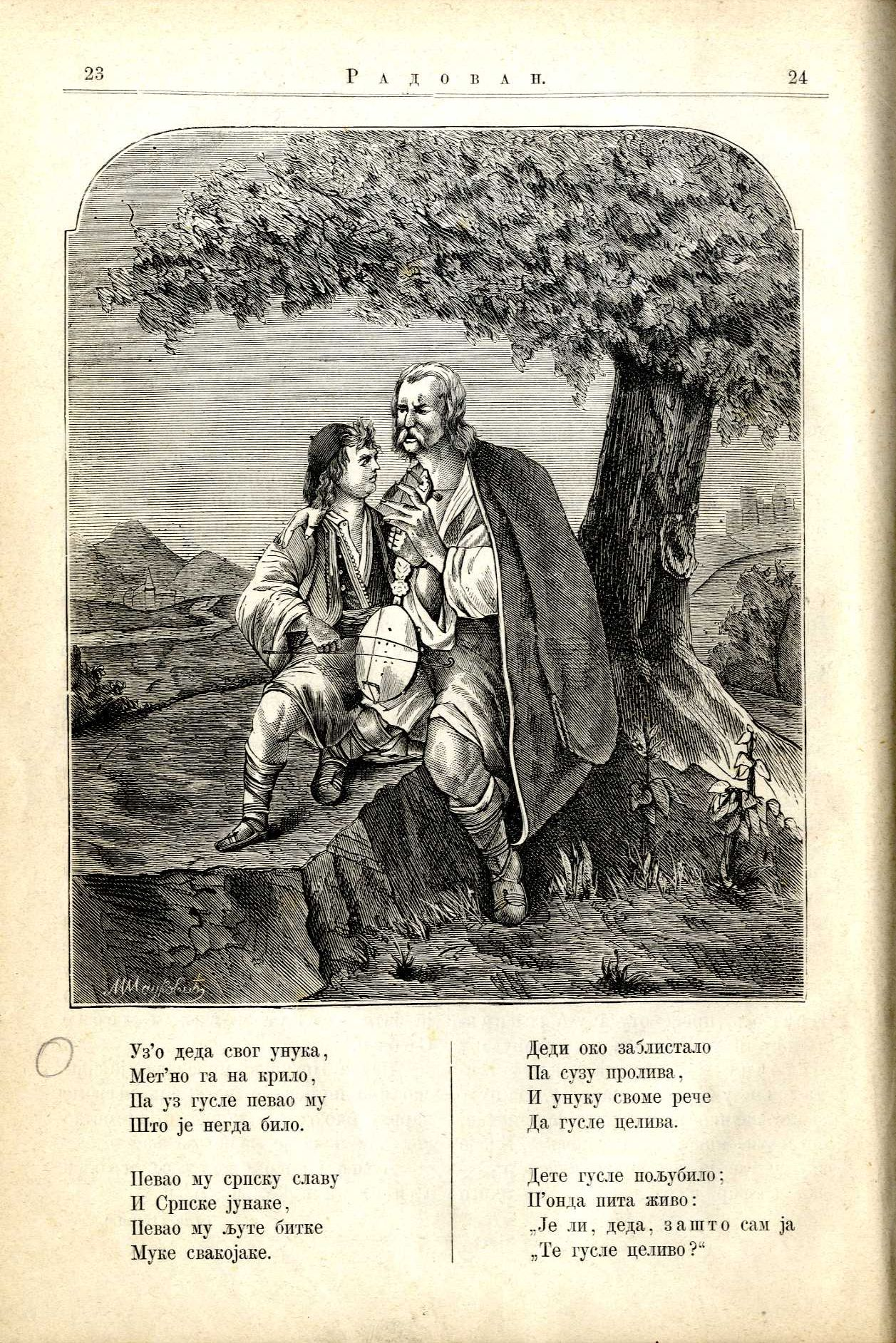 Radovan, magazine, picture from number 1, 1876, Novi Sad